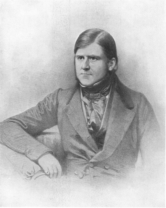 John Dalrymple (1803–1852), English ophthalmologist